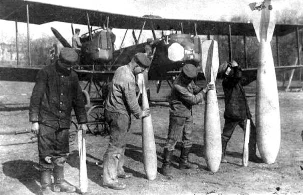 Different kind of bombs used by the Gothas, in the backround a Gotha GV